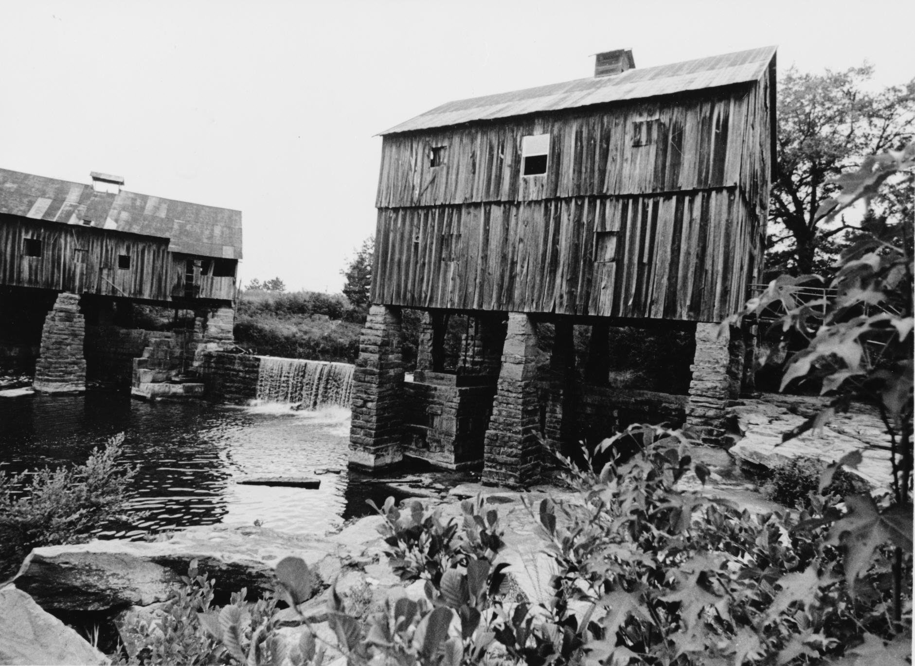 Boshell's Mill — Lost Creek at Alabama Route 124, 1.7 miles South of Route 78, Townley, Walker County, AL. In 1973, before 2 fires destroyed the landmark mill's structures. Image: HAER—Historic American Engineering Record images of Alabama.